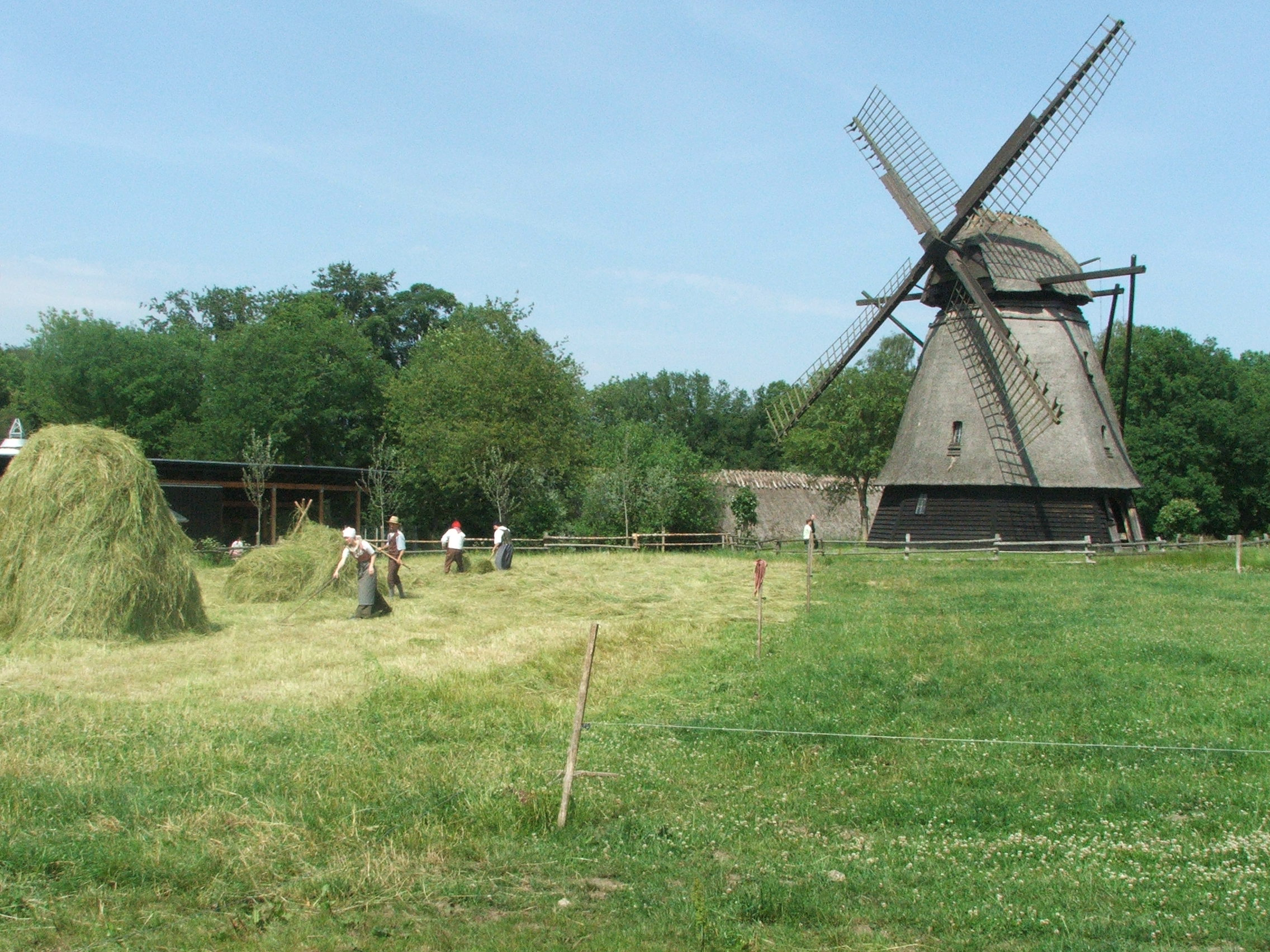 Mill in a open-air museum called "The Funen Village" or "Den Fynske Landsby" in Danish